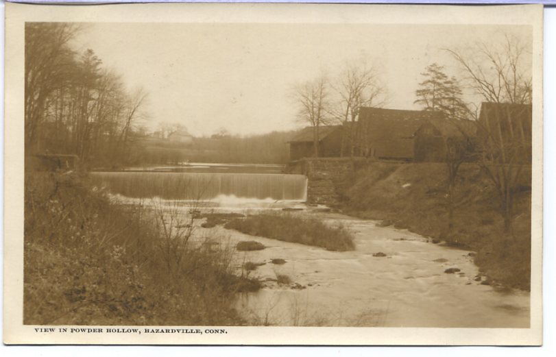 Postcard: Powder Hollow in Hazardville, Connecticut, a section of Enfield, Connecticut Original caption: “Standard postcard size (3.5” x 5.25”) Condition is unused [...] Dexter Photo published circa 1910”